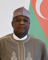 Ilham Aliyev received credentials of incoming Ambassador of Nigeria